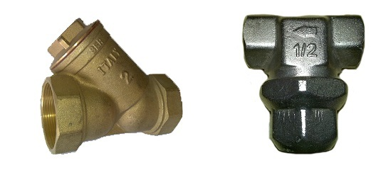 Filter latun